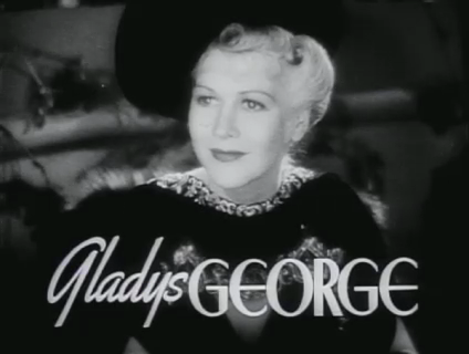 Gladys George in Love Is a Headache (1938), directed by Richard Thorpe.